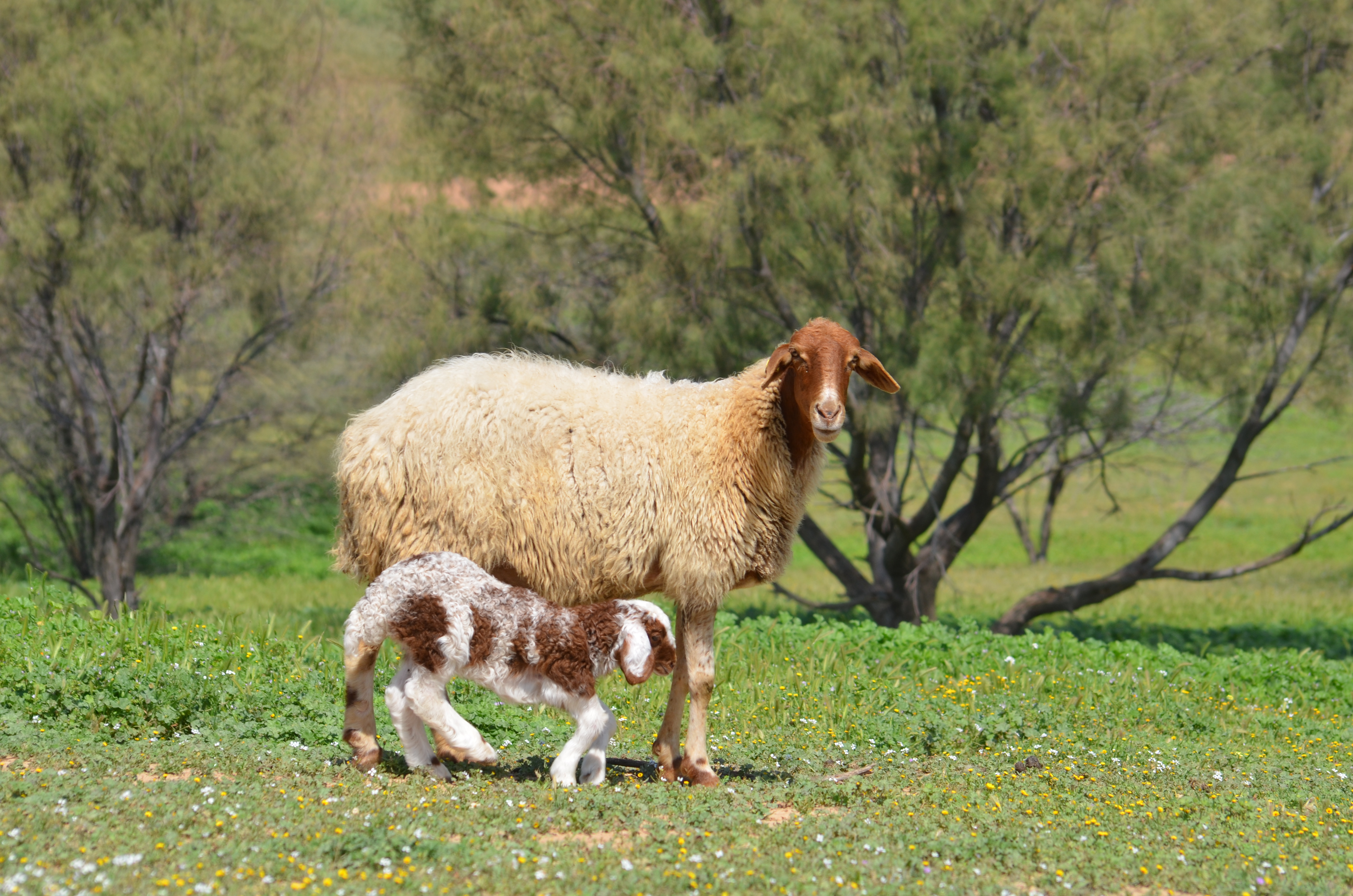 Nature and Colors